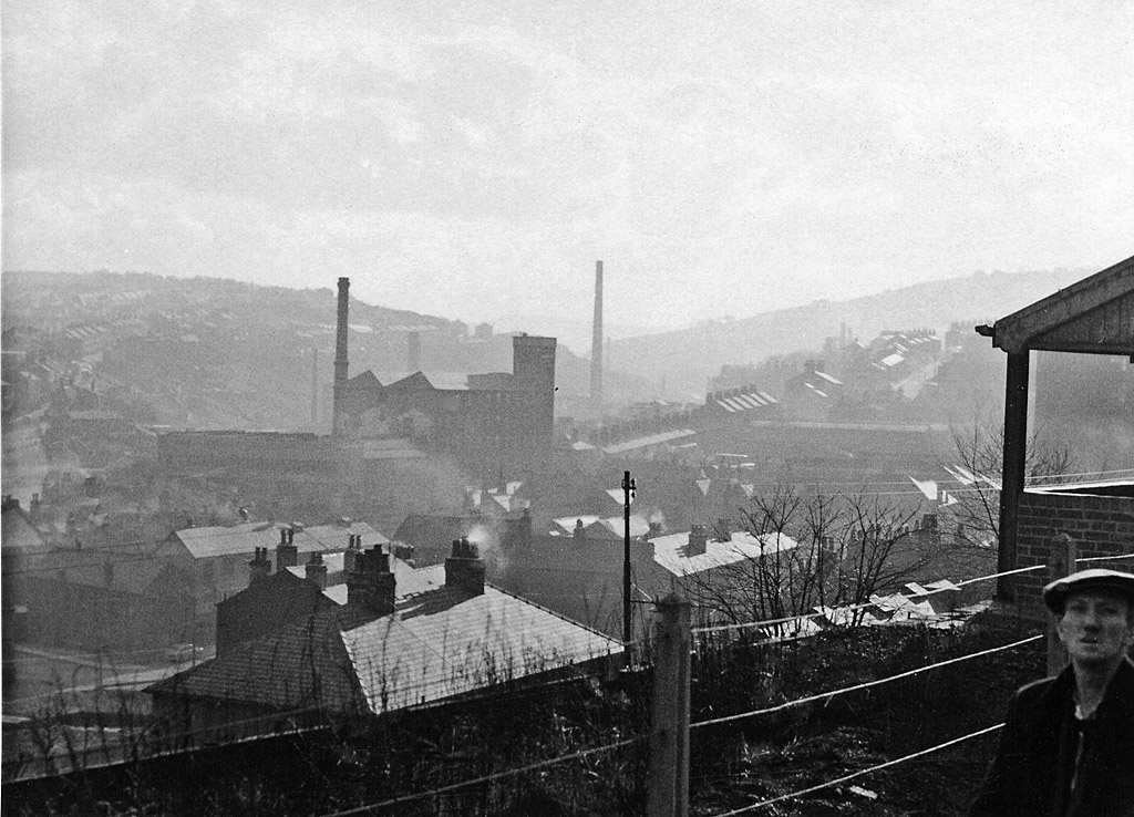 Industrial scene up Colne Valley from Longwood & Milnsbridge Station. View west, taken from train on Manchester - Huddersfield - Leeds (Standedge) line